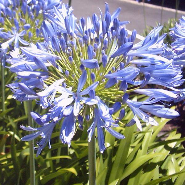 Agapanthus africanus